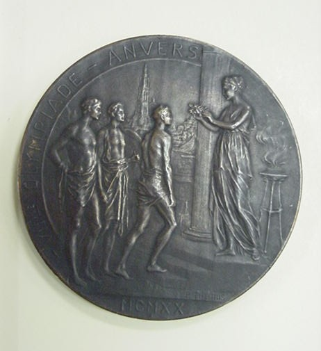 Accession: 2000-158-18 Medal, Participation, Olympics, Antwerp 1920. 2.36" Diameter Medal is from the Collection of Captain Carl T. Osburn. The cityscape of Antwerp is in the background of the medal. Collection of Curator Branch, Naval History and Heritage Command.